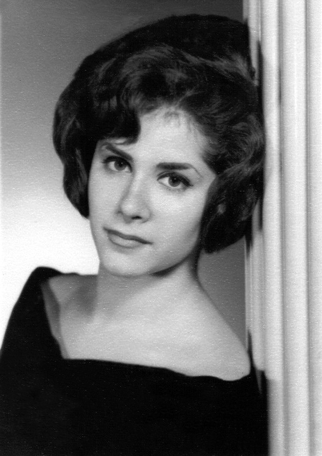 Photo of singer Linda November, taken by her mother Eleanore November